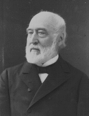 French politician Lazare Hippolyte Carnot (1801-1888)